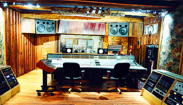 The A Studio at Sonic Ranch in Tornillo, Texas. console: SSL 4000 E/G 40ch input (the preferred Black series EQ), (four) Stereo Modules G Series Computer, G+ Software and Total Recall recorders: ProTools Studer A827-24 track analog recorder Dolby SR noise reduction system Timeline Microlynx synchronizer